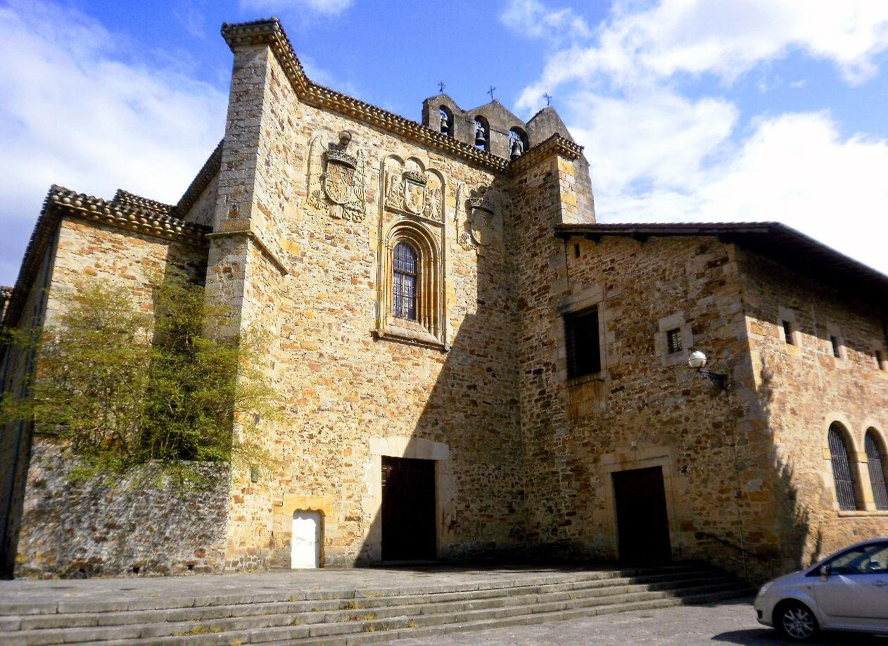 Monasterio de Santa Clara de Bidaurreta, Oñate (Guipúzcoa, País Vasco, España)